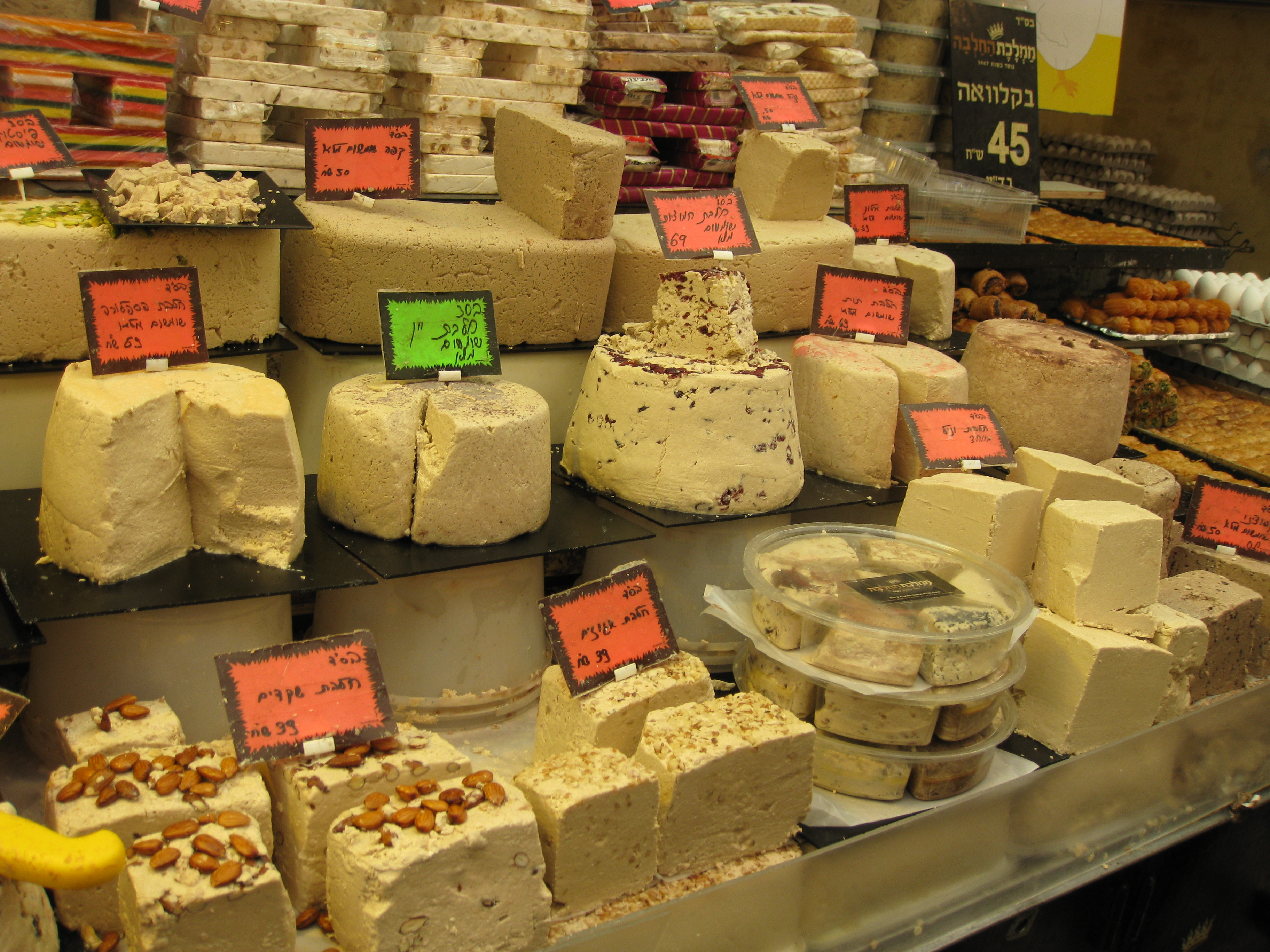 Halva in Mahneh Yehuda market